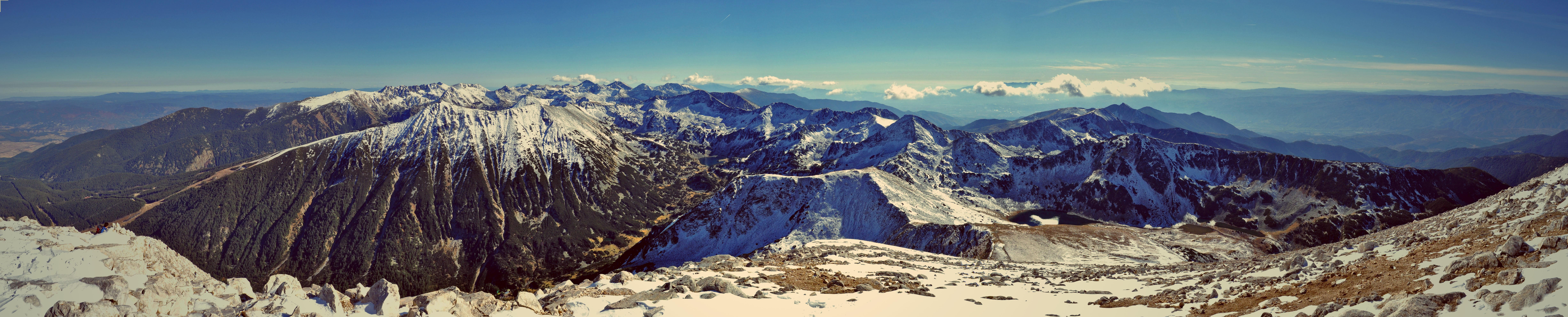 View from peak Vihren, Pirin National Park, Bulgaria